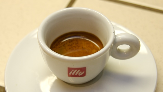 Cup of ristretto